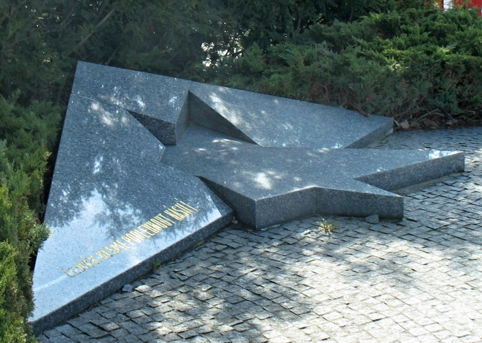 Memorial to the holocaust in Česká Lípa, Czech Republic